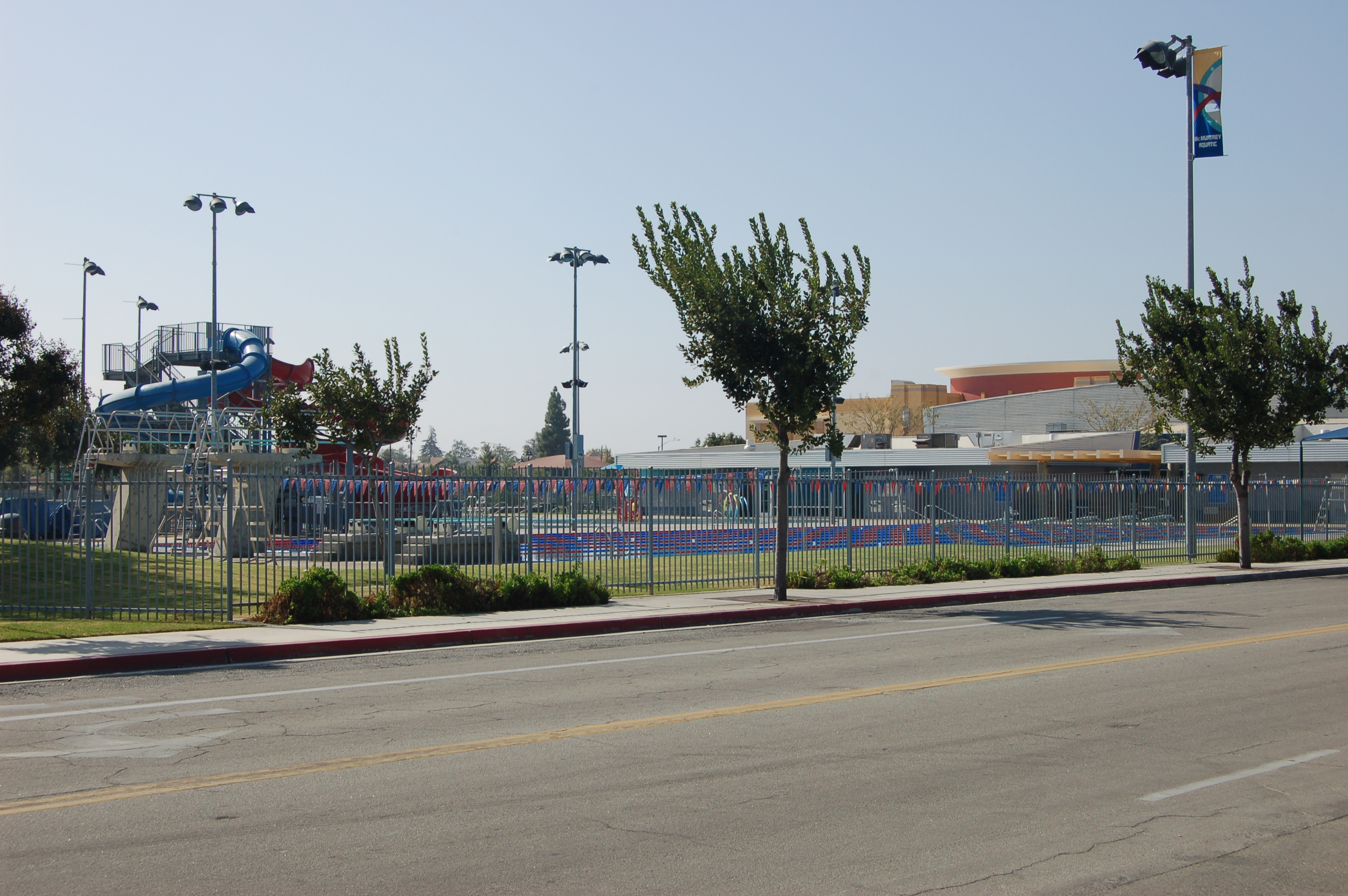 View of the Mc Murtrey Aquatics Center from the south side.